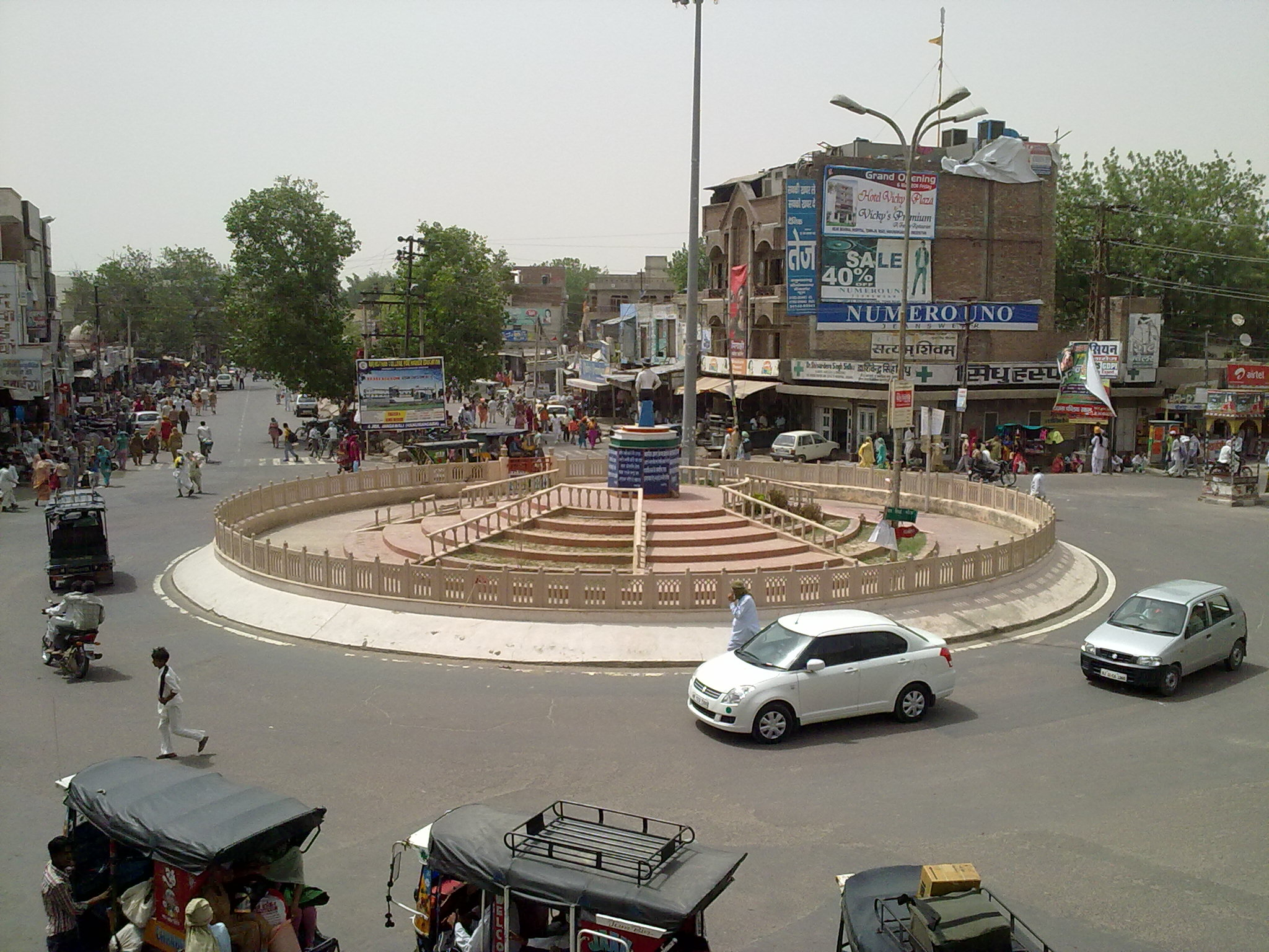 A Top Side View of Bhagat Singh Chowk in Hanumanagrh